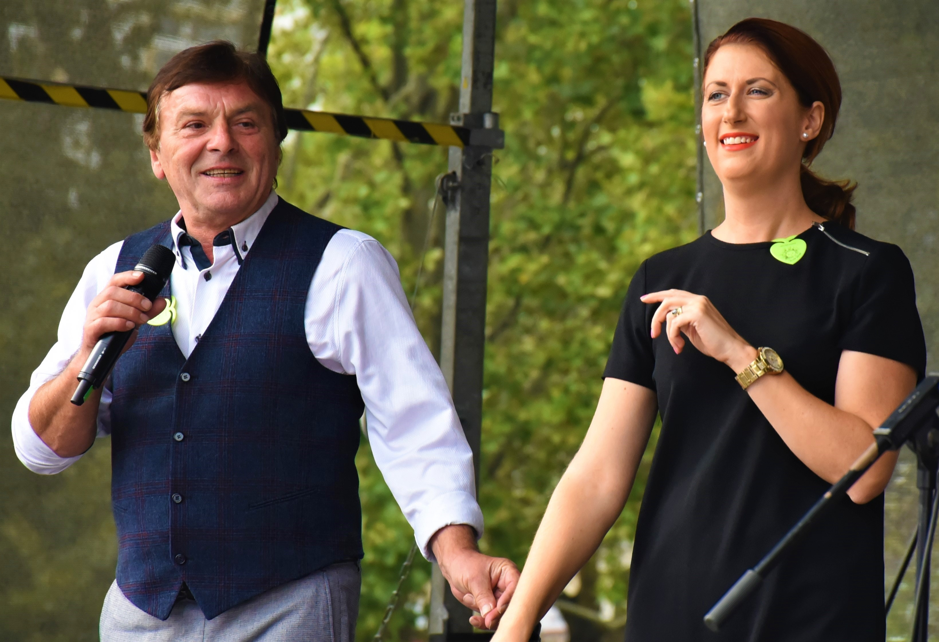 Pavel Trávníček, Czech actor and Monika Fialková, Czech vocalist